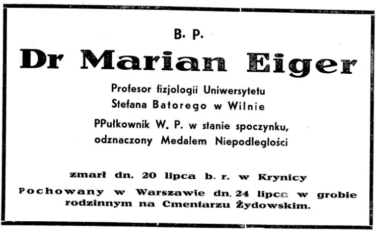 Obituary of Marian Eiger